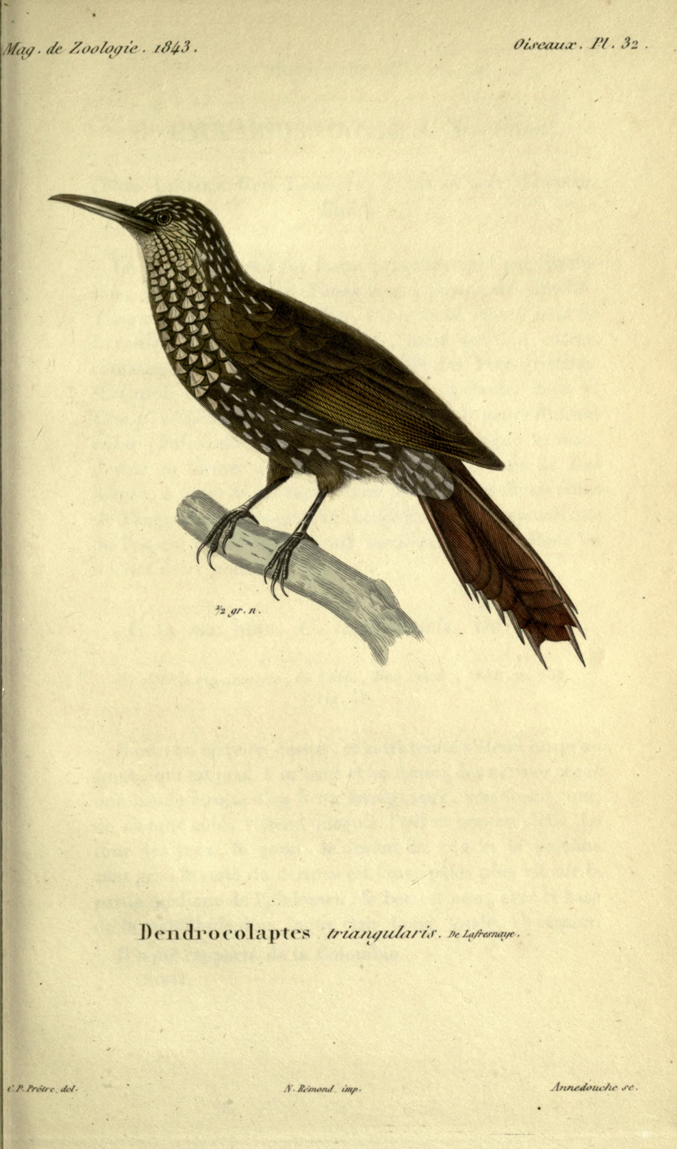 Xiphorhynchus triangularis syn. Dendrocolaptes triangularisMagasin de zoologie.